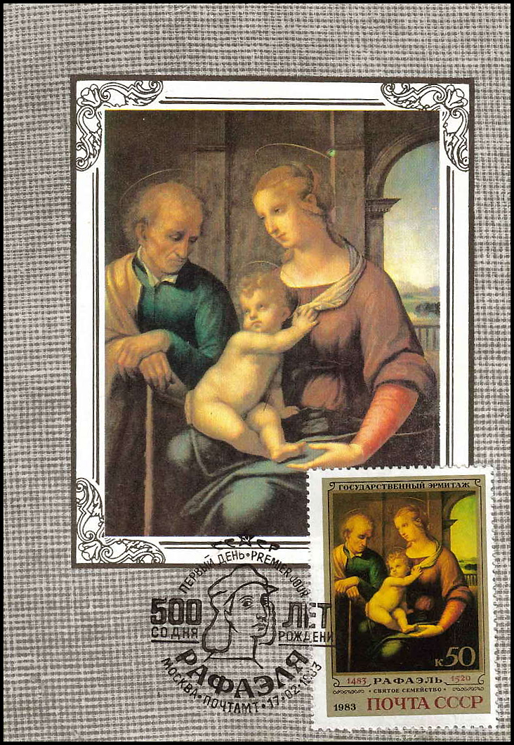 USSR 1983. Maximum card with a stamp dedicated to the 500th anniversary of Raphael. The stamp and the card: "The Holy Family" (1506). The State Hermitage Museum. Stamp № 5374 (cat. CPA). First day of issue postmark 17/02/1983 Moscow, Central Post Office.